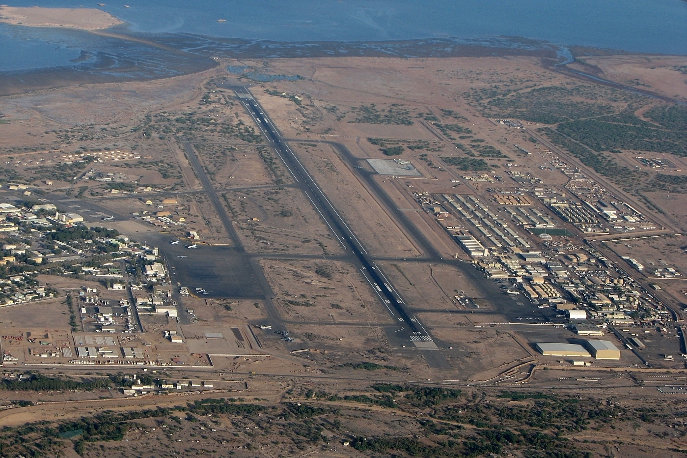 Djibouti-Ambouli International Airport